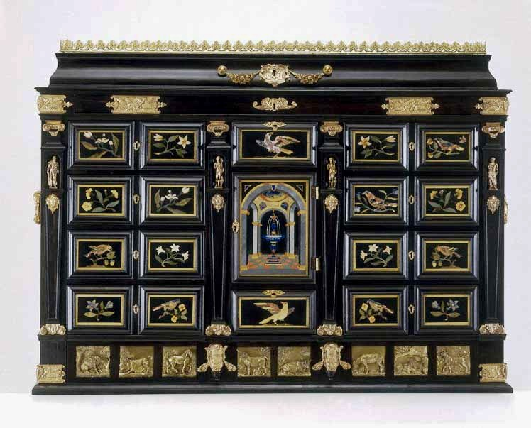 John Evelyn's cabinet, 1644-1646 V&A Museum no. W.24-1977 Techniques - Veneered with ebony on a pine carcase, with oak drawer linings; inlaid with panels of Florentine pietre dure; contemporary and later bronze mounts Artist/designer - Francesco Fanelli (1577-about 1641), Domenico Benotti (active 1630-died 1650) Place - Florence, Italy Dimensions - Height 91 cm, Width 40 cm, Depth 122 cm